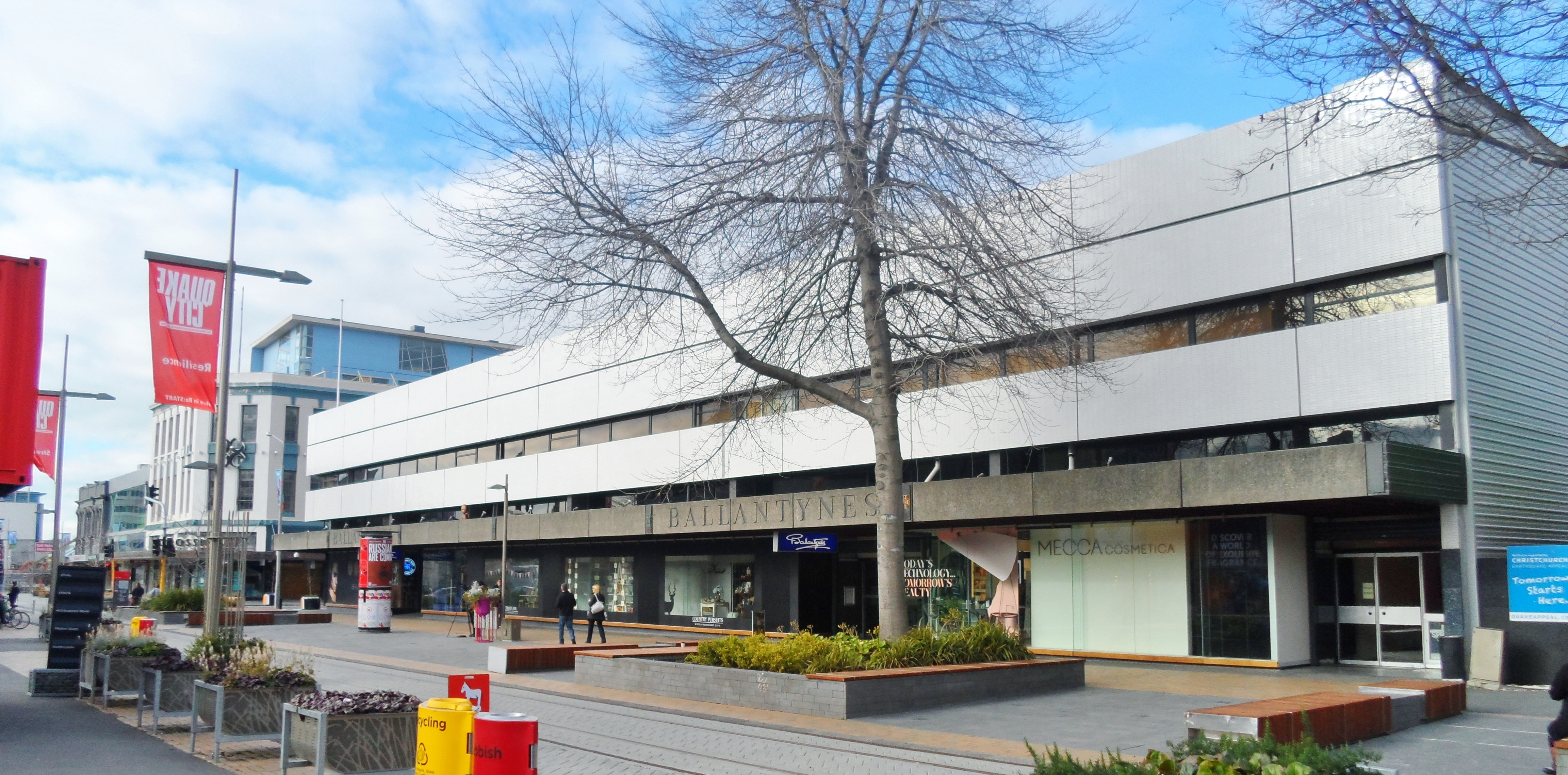 The Christchurch, New Zealand branch of local department store Ballantynes, viewed from Cashel Street in 2013.